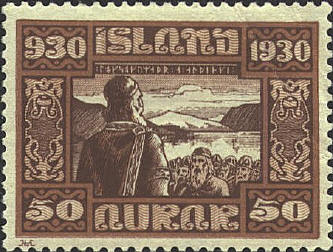 A postage stamp (worth 50 aurar) celebrating the thousand-year anniversary of the Icelandic Alþingi.